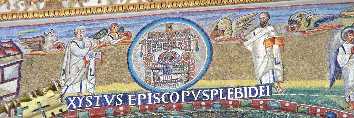 Rome, Basilica of Santa Maria Maggiore, Triomphal Arch, mosaics, upper register, center